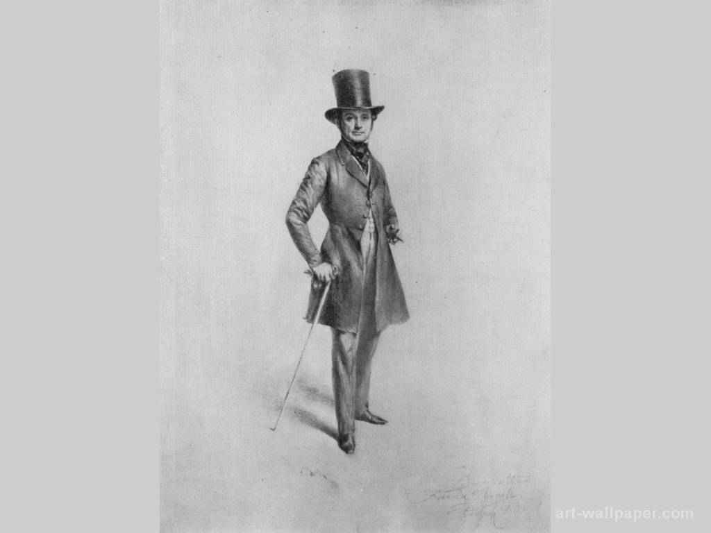 Prussian painter Edward Magnus